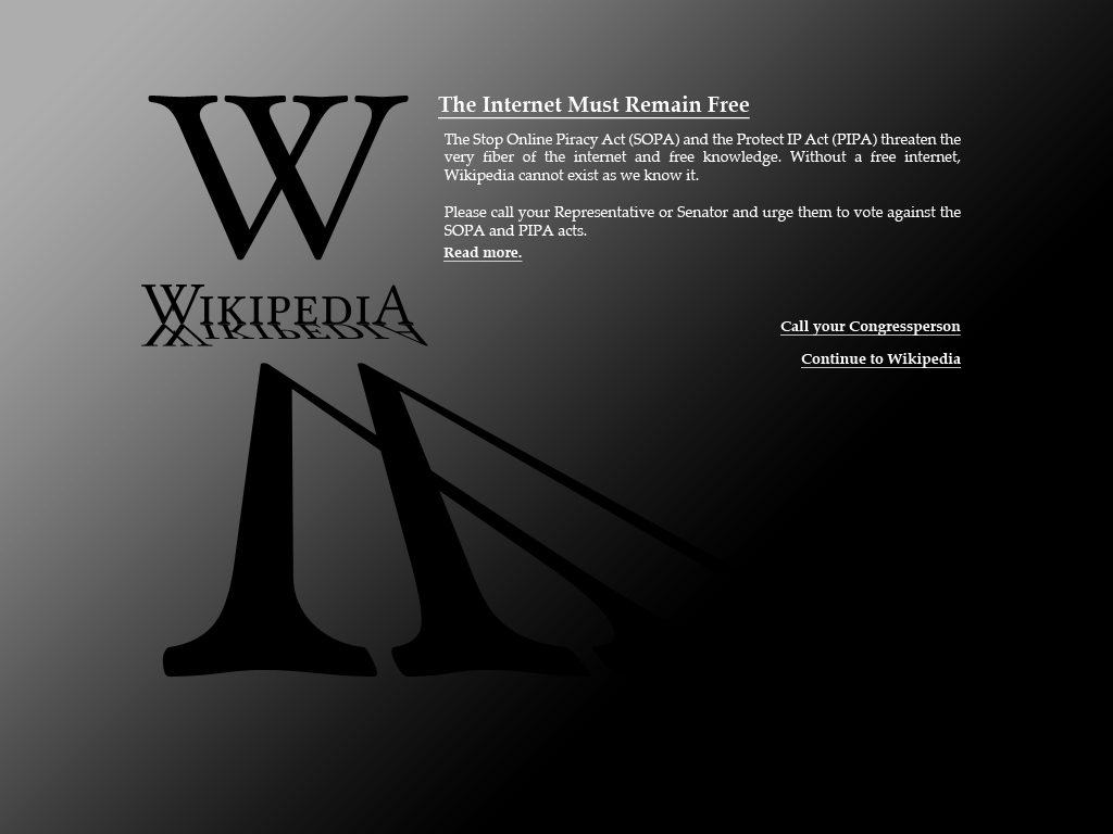 Mock designs for a potential "blackout" screen for the English Wikipedia protest